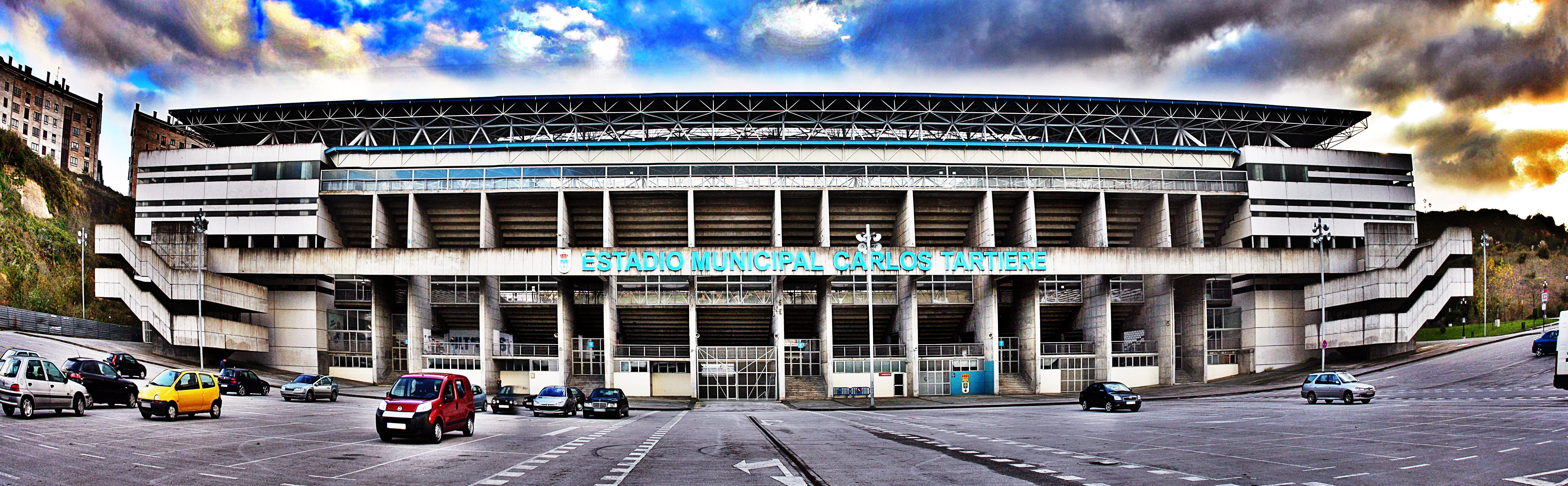 Panoramic view of Estadio Carlos Tartiere (Oviedo, Spain)